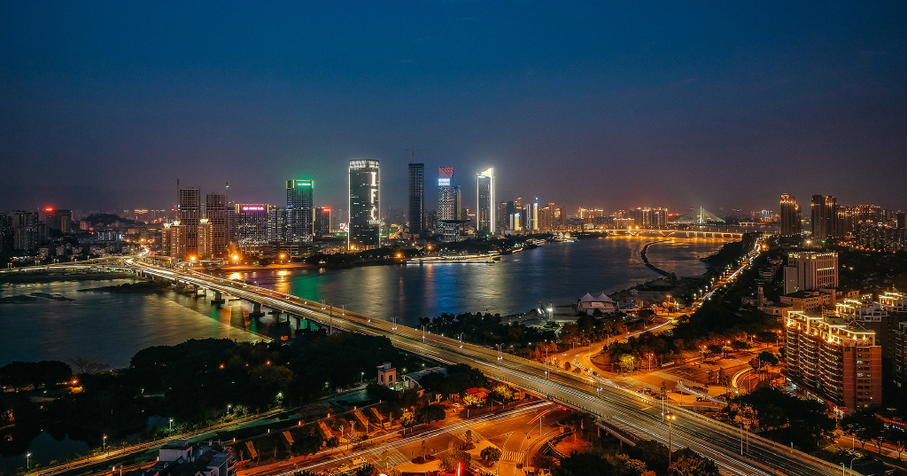 Fuzhou Cityscape (Taixi CBD)